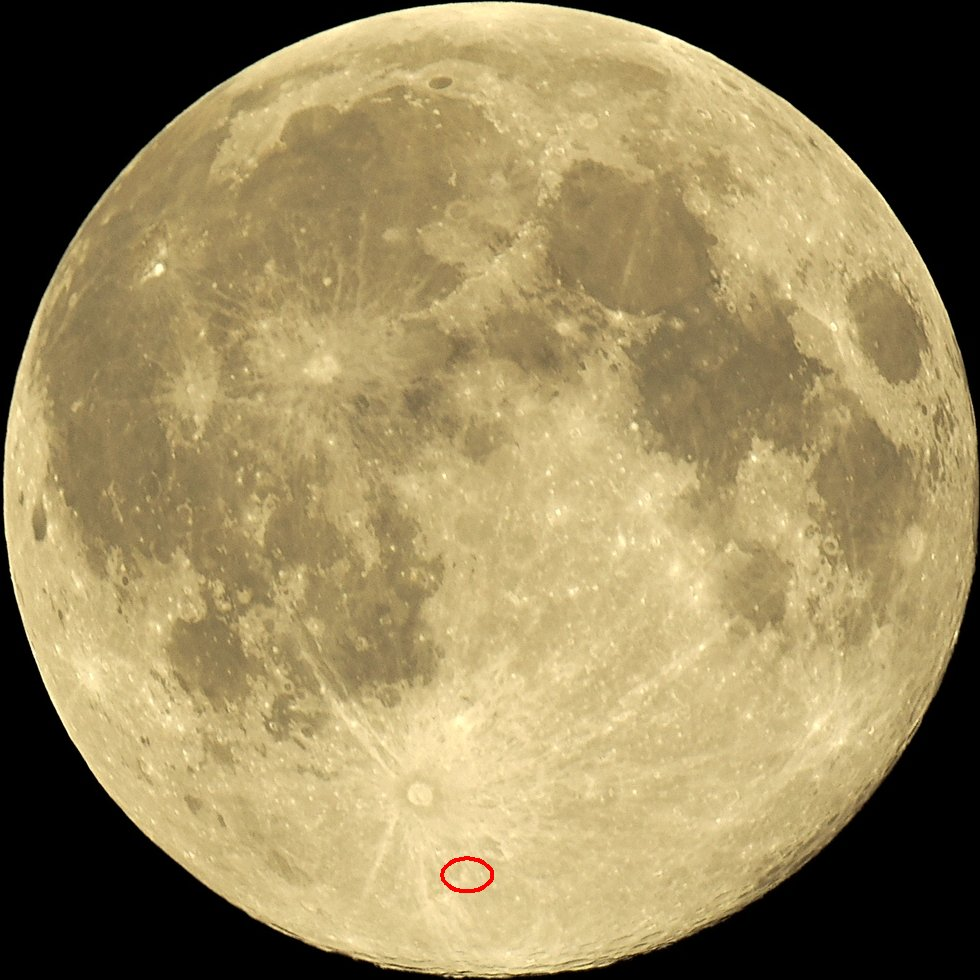 Location of crater Lilius on the Moon